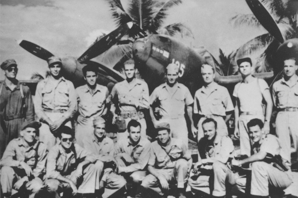 The men of the 339th Fighter Squadron of the 347th Fighter Group, 13th Air Force who flew the mission that shot down Yamamoto: Back row, left to right: Lt. Roger J. Ames, Lt. Lawrence A. Graebner, Capt. Thomas G. Lanphier, Jr., Lt. Delton C. Goerke, Lt. Julius Jacobson, Lt. Eldon E. Stratton, Lt. Albert R. Long, Lt. Everett H. Anglin Front row, left to right: Lt. William E. Smith, Lt. Douglas S. Canning, Lt. Besby F. Holmes, Lt. Rex T. Barber, Maj. John W. Mitchell, Maj. Louis R. Kittel, Lt. Gordon Whitakker Not pictured: Lt. Raymond K. Hine, MIA, presumed dead